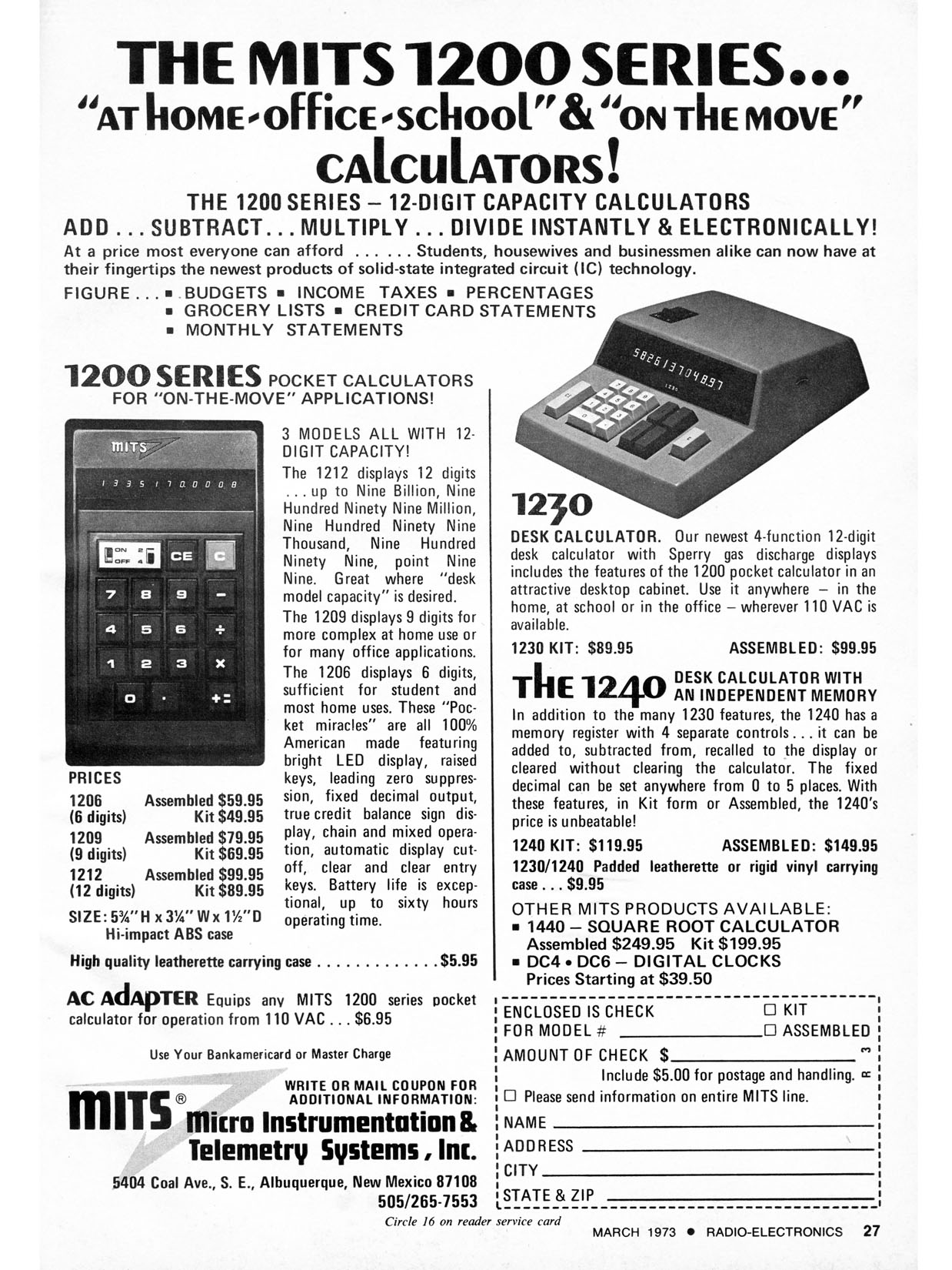 Micro Instrumentation & Telemetry Systems, Inc (MITS) advertisement for electronic calculators in March 1973. After a brutal calculator price war in 1973–1974, MITS was $300,000 dollars in debt. The company introduced the Altair 8800 in January 1975, the first successful personal computer. MITS was acquired by Pertec Computer Corporation in 1977 for $6 million.